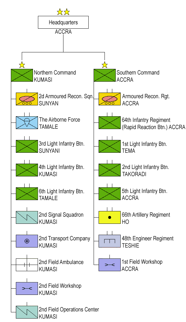 Structure Army of Ghana